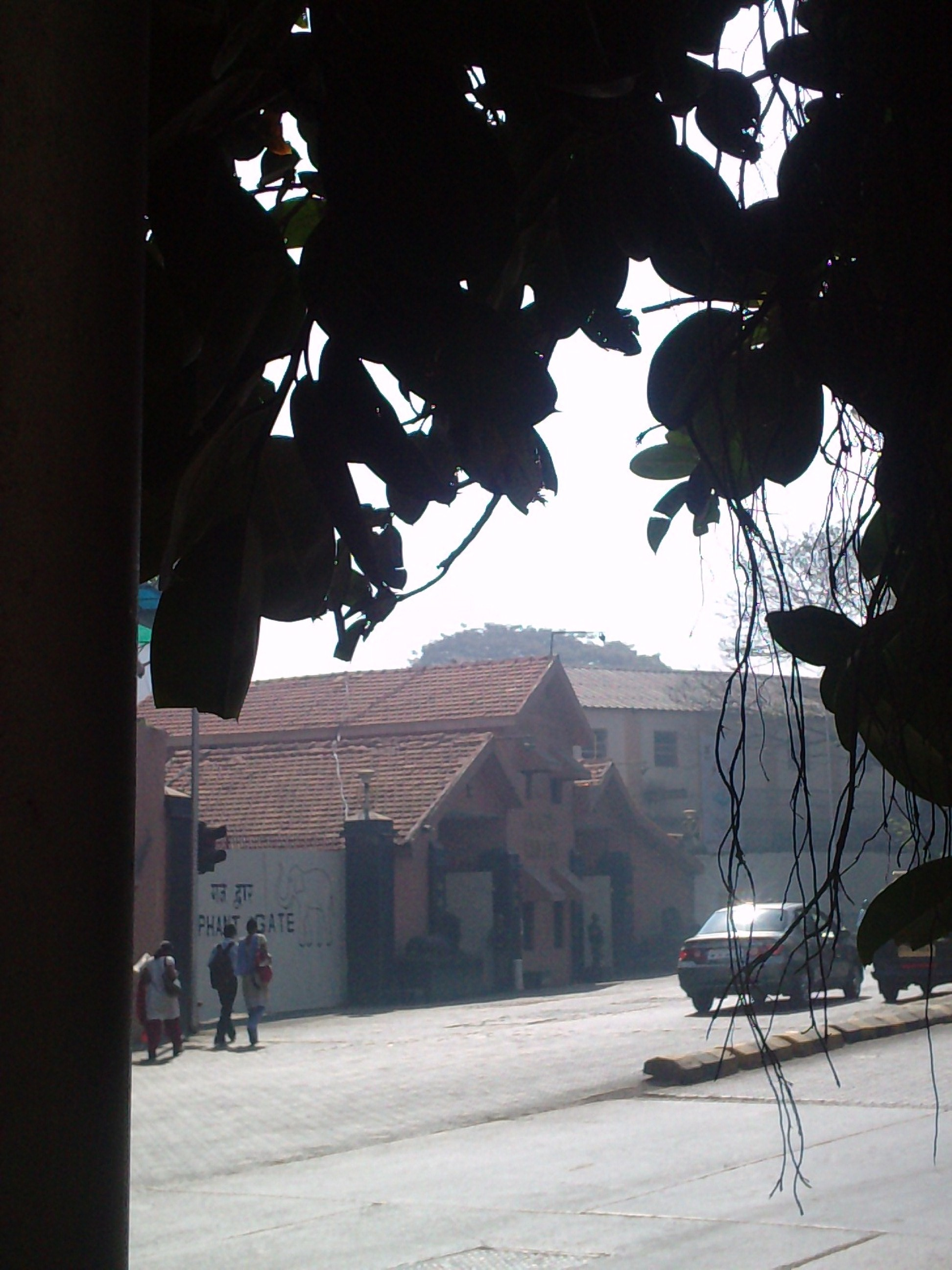 TAKEN DURING WIKIPEDIA TAKES MUMBAI 1 PHOTOWALK